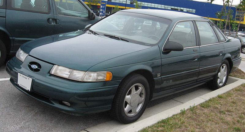 1992 Ford Taurus SHO photographed in USA.